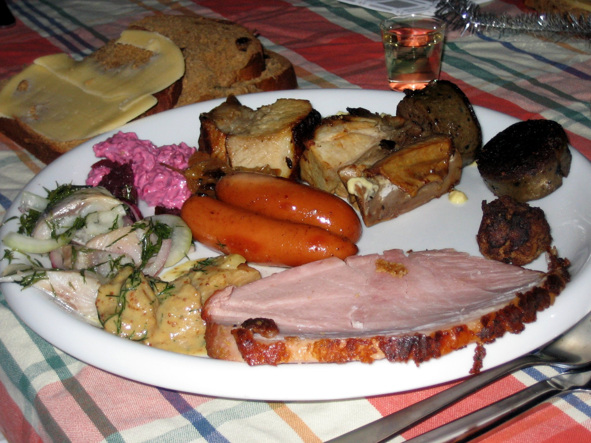 A plate with dishes from a Christmas smörgåsbord, a type of Swedish buffet